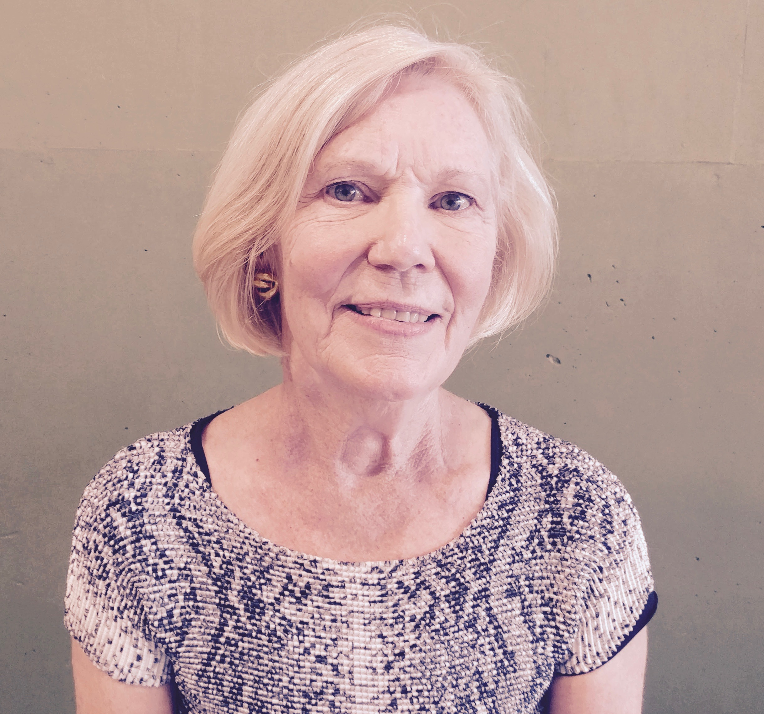 Clair Brown at the Brisbane Writers Festival, September 2017